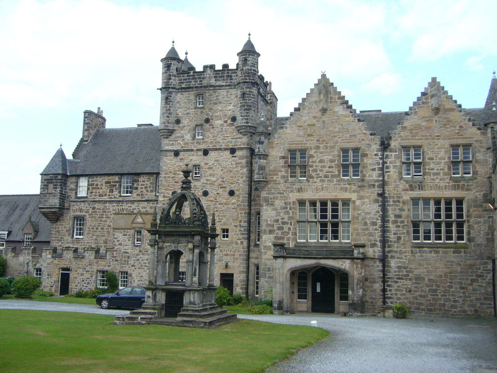 "Pinkie House, though not very ancient, (as it was built by Alexander Seton, first Earl of Dunfermline, in the year 1622), deserves to be mentioned, because it was a vulgar notion for many years, that there were as many doors and windows in it, as there are days in the year. This has been copied into many of the tours and travels into Scotland, though without foundation; and serves only to prove, that the house of Pinkie, though half the design has only been executed, was one of the first houses of any degree of magnitude, in this part of the country, as it excited the wonder of the common people." -- 'Jupiter' Carlyle, minister of Inveresk, Old Statistical Account, 1792